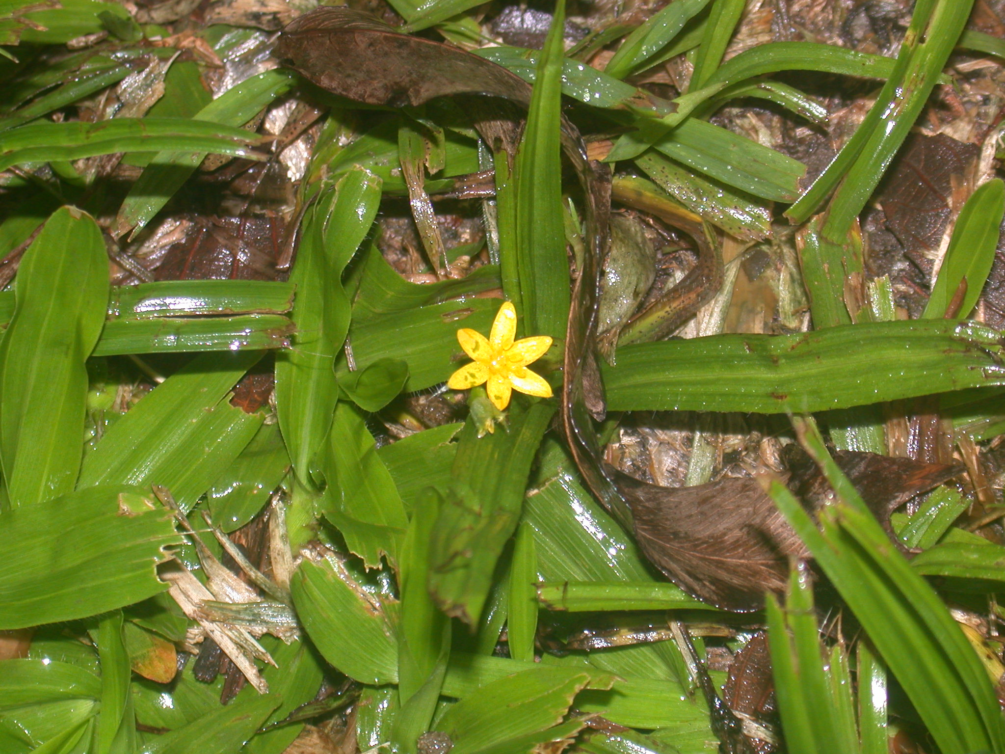 Hypoxis decumbens (Hypoxidaceae) by J. Ziffer, Santa Catarina, Brazil.